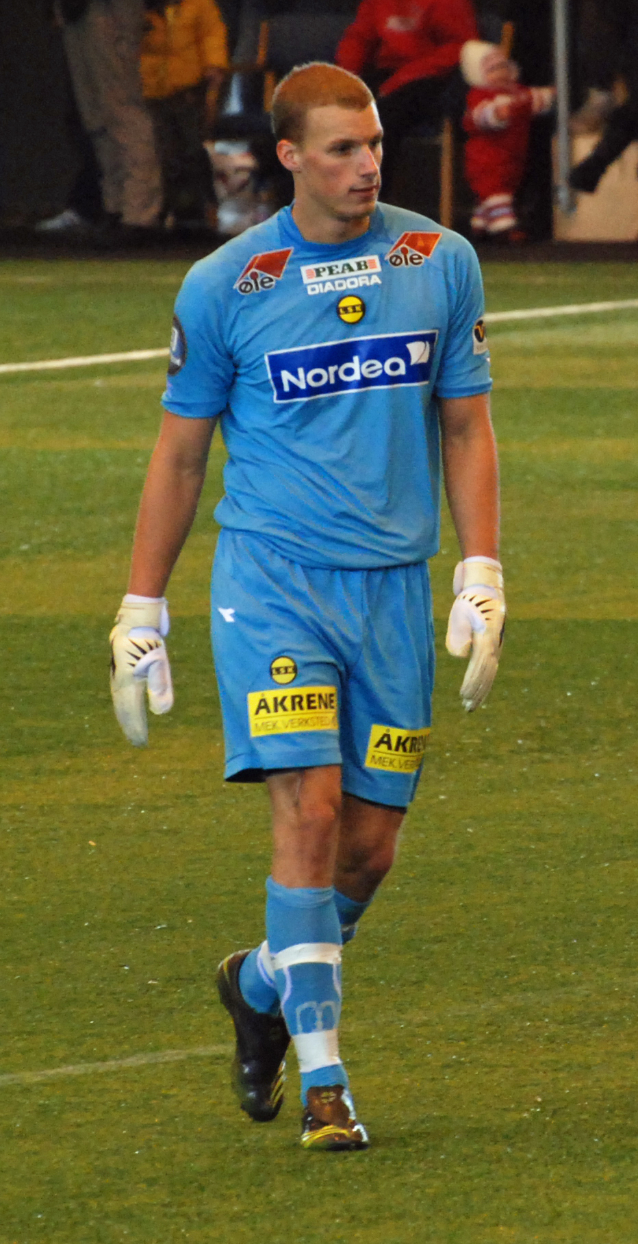 André Hansen, Lillestrøm - HamKam, LSK hallen in Lillestrøm, Akershus, Norway